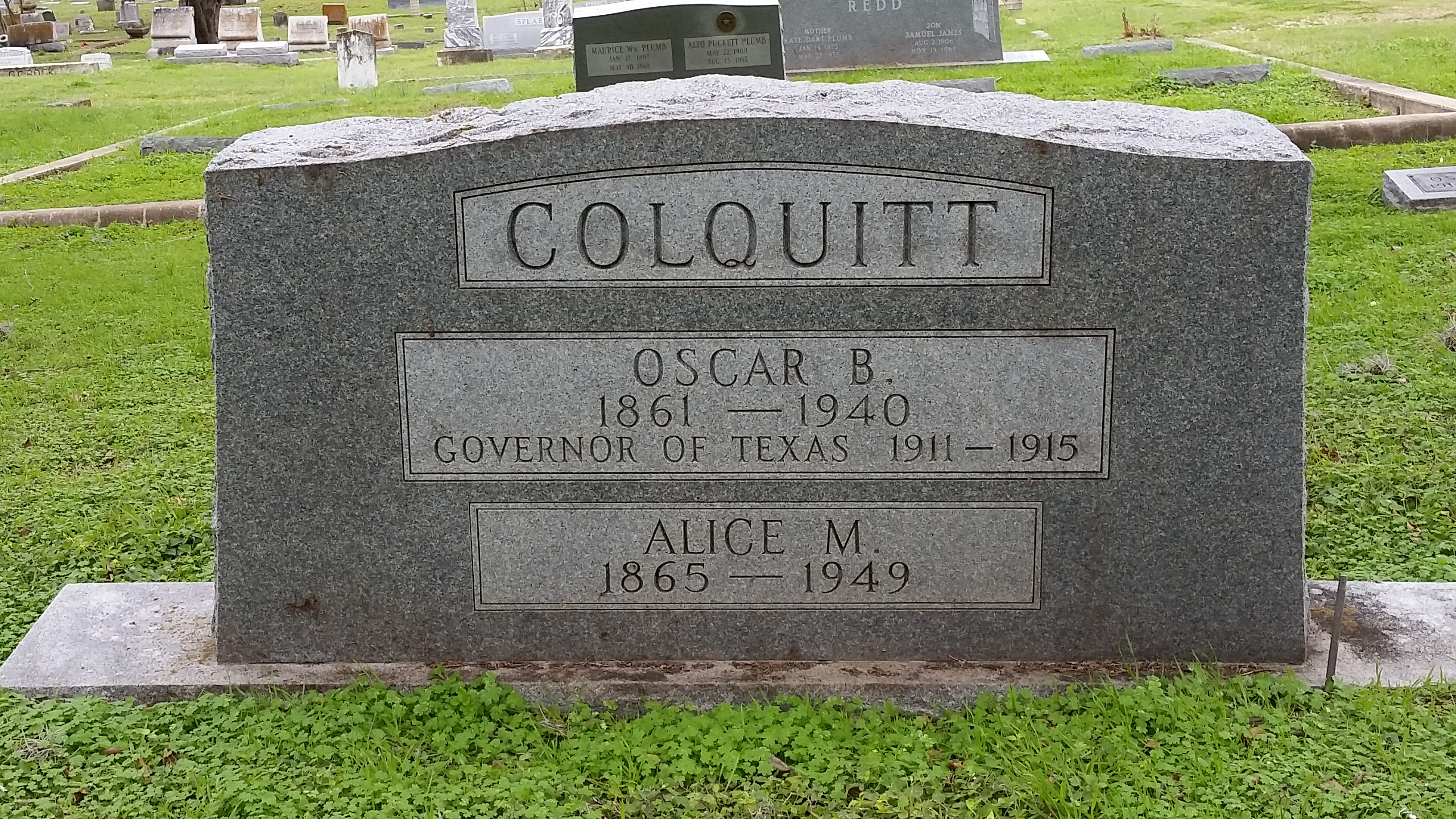 Colquitt Resting Place